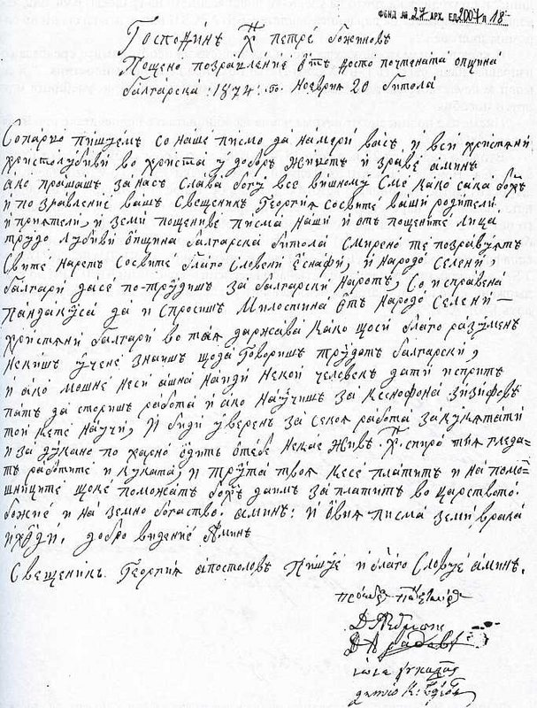 Letter of the Bitolya Bulgarian Municipality to Petre Bozhinov, 20 November 1874